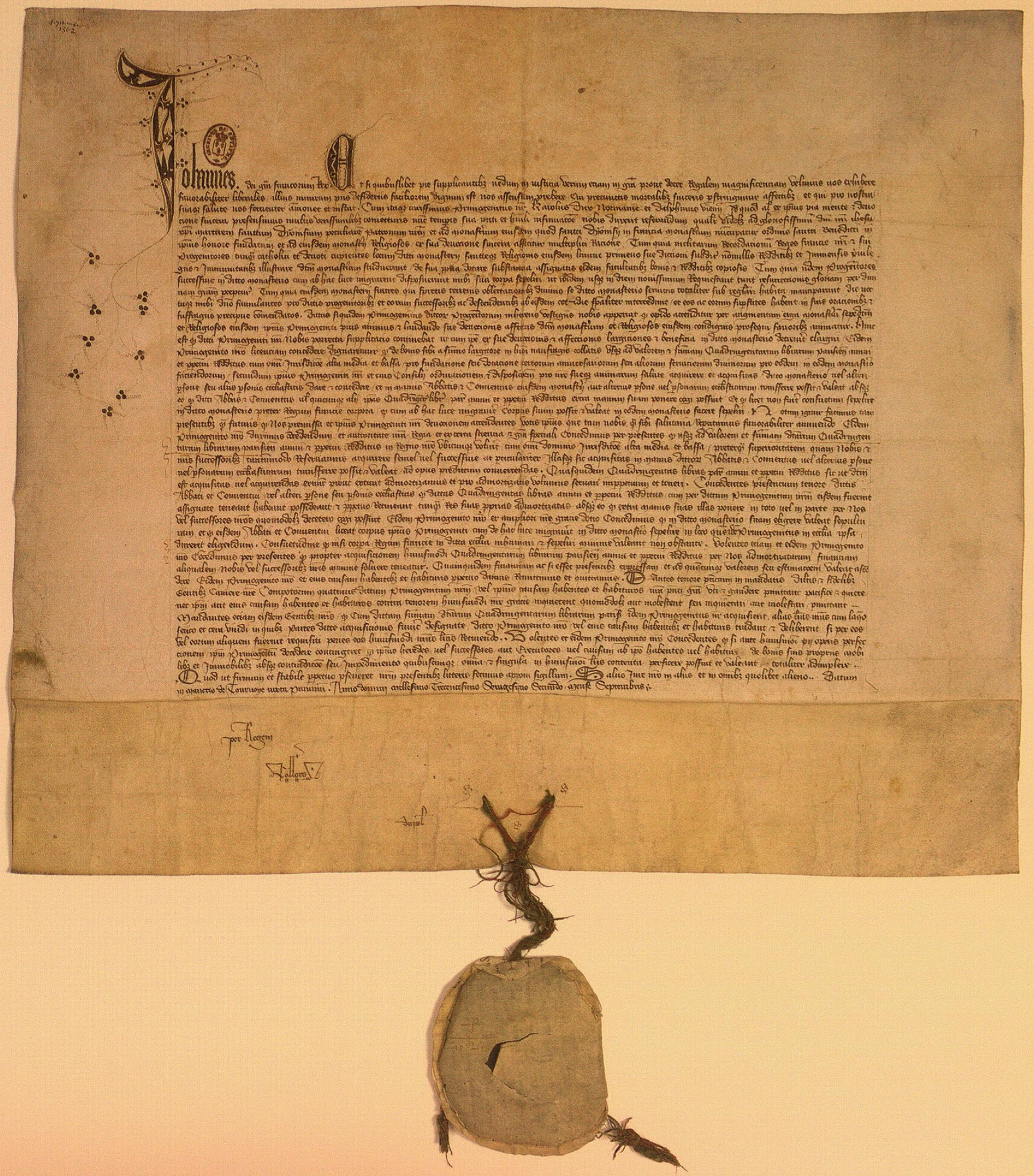 A charter of King John II of France. Paris, Archives nationales, K 49 C, No. 71.